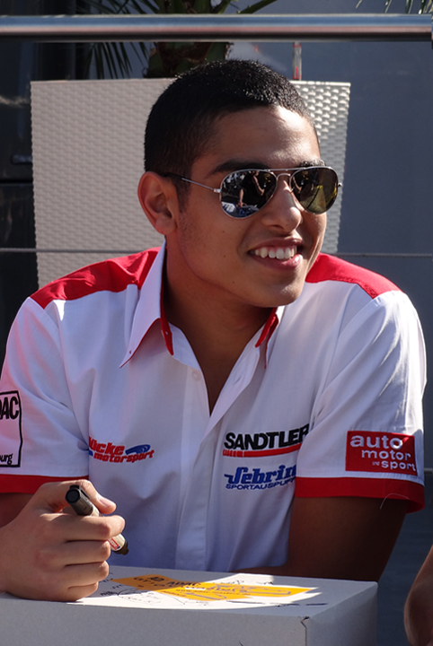 Roy Nissany in Oschersleben, Germany, round 1 of ADAC Formula Masters 2011.